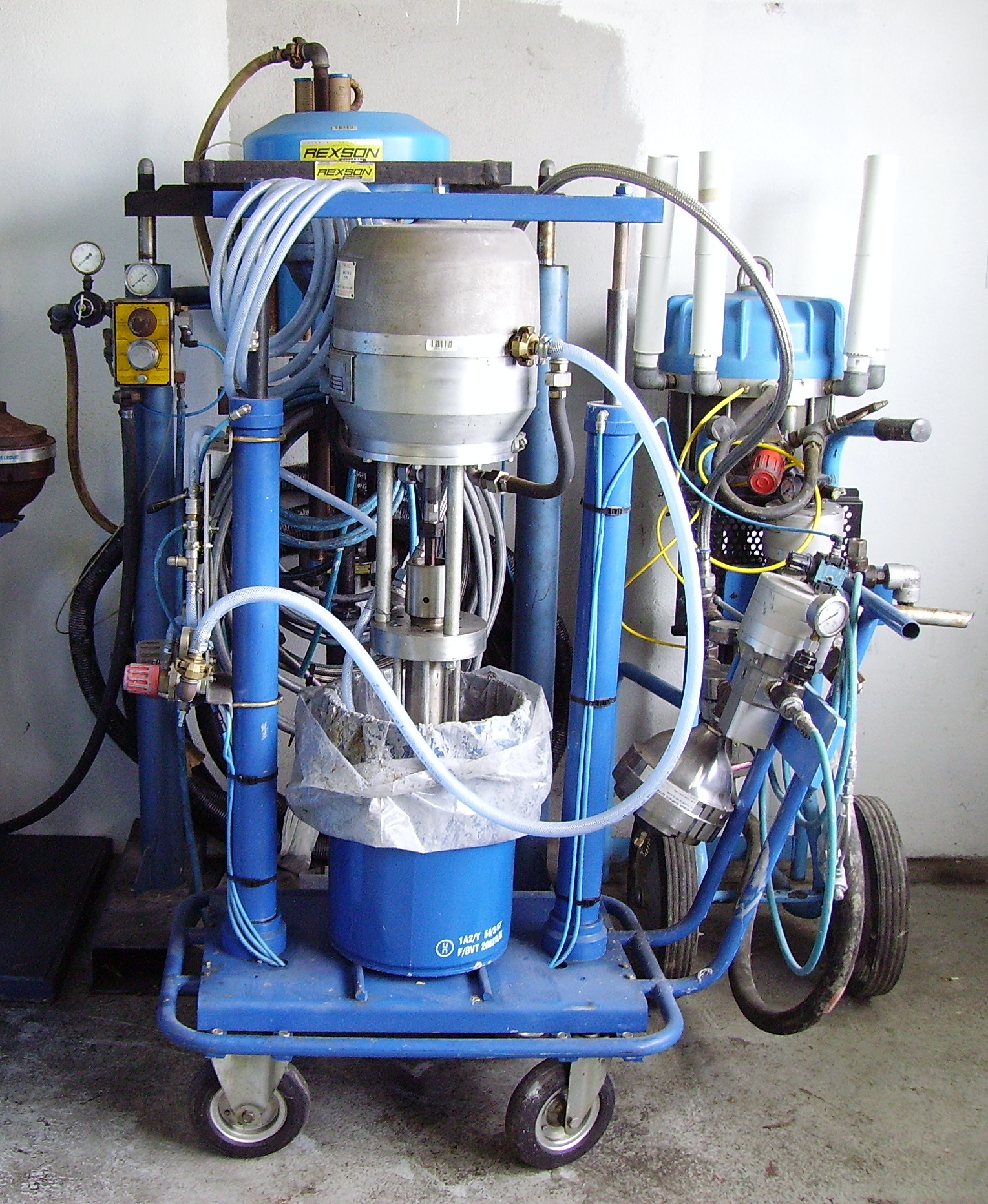 Rexson pump for sealant (e.g. PVC plastisol).